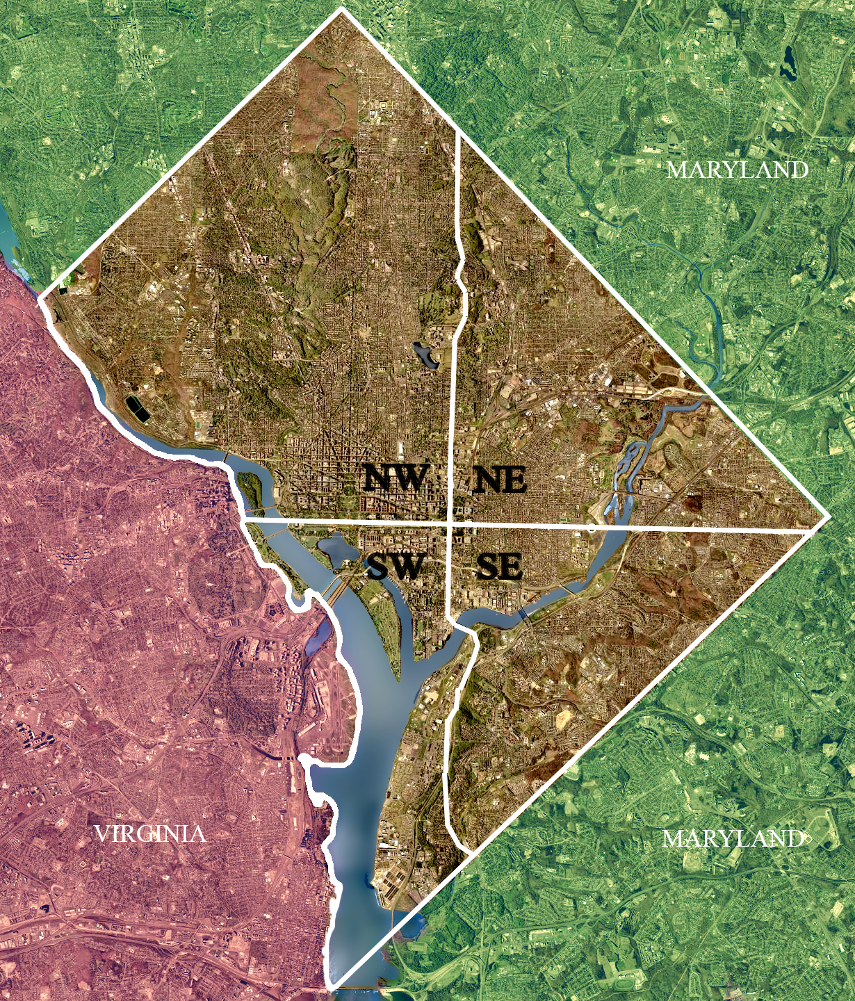 USGS satellite image of the District of Columbia, modified to show territorial boundary and quadrant divisions.